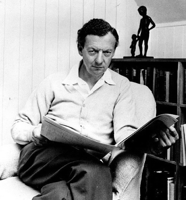 Publicity photograph of British composer Benjamin Britten